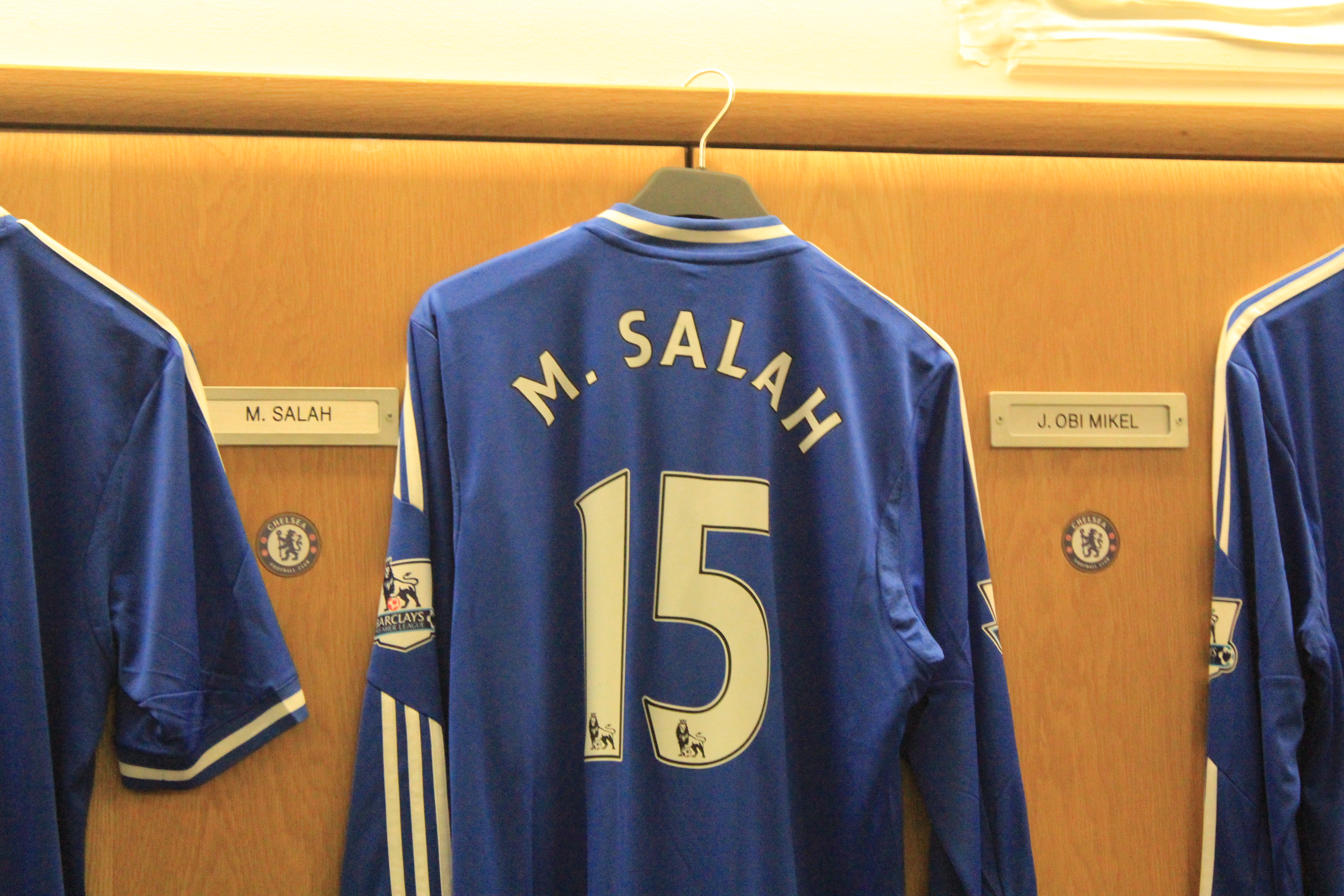 ghjklkjhgfg